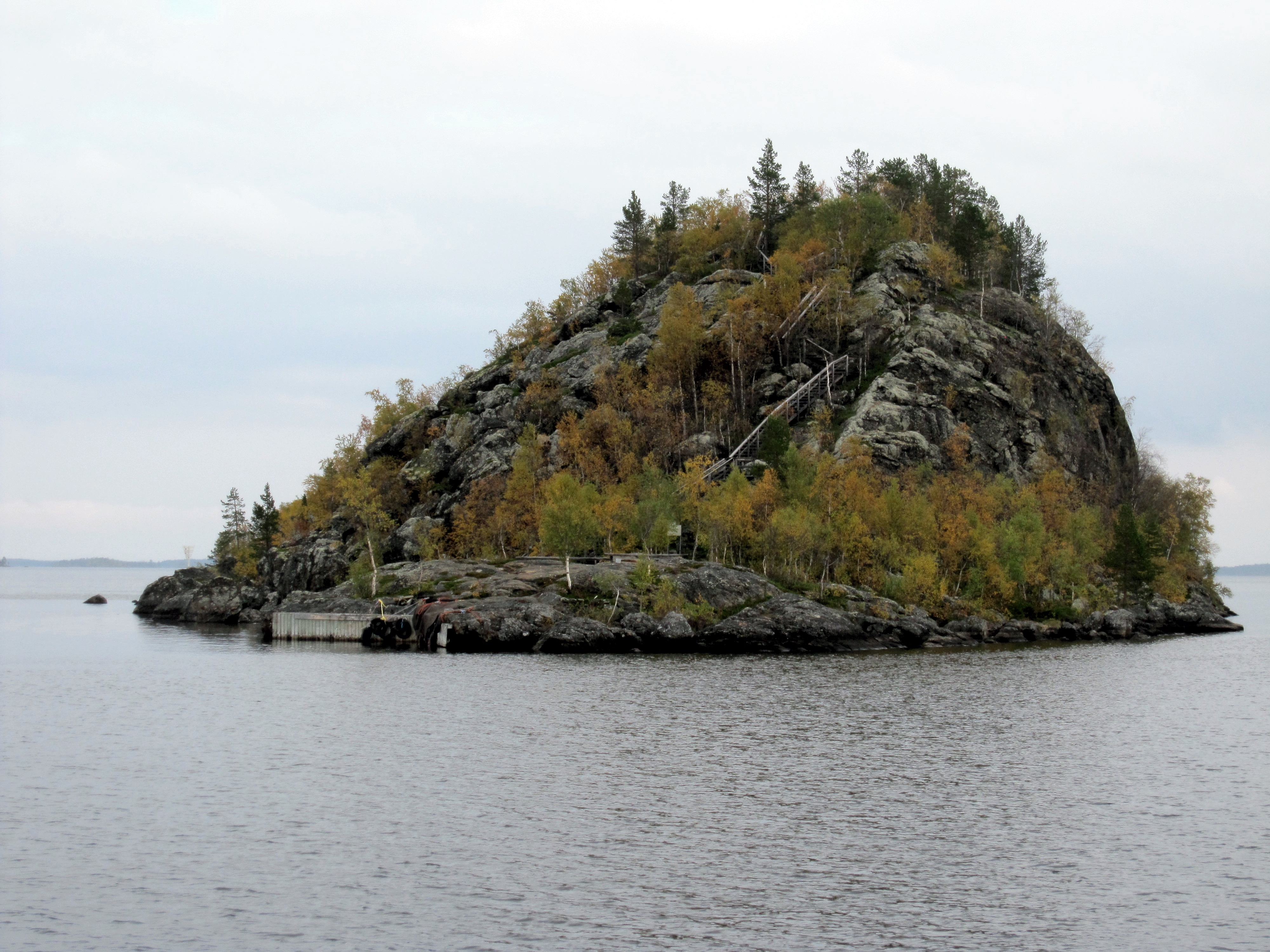 Ukonkivi (Ukonsaari) island in lake Inari, Finnish Lapland